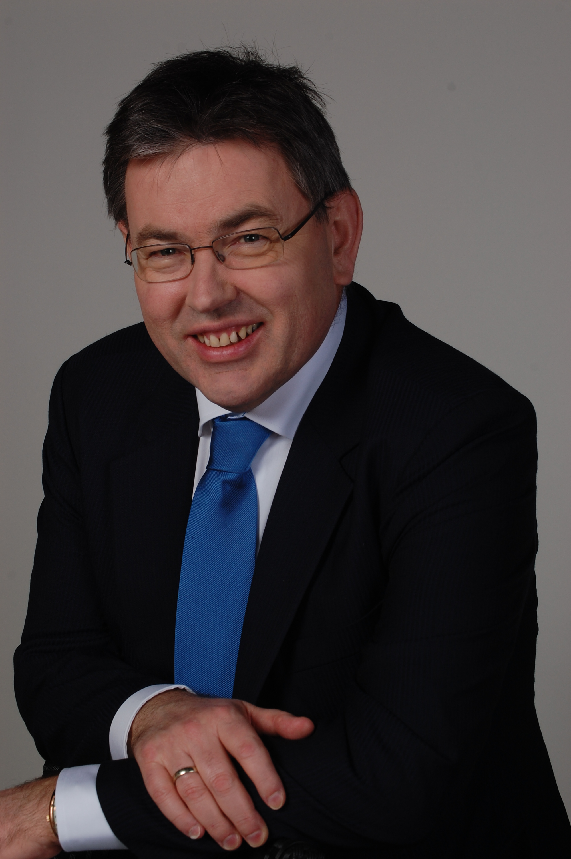 Belgian MEP Derk Jan Eppink.